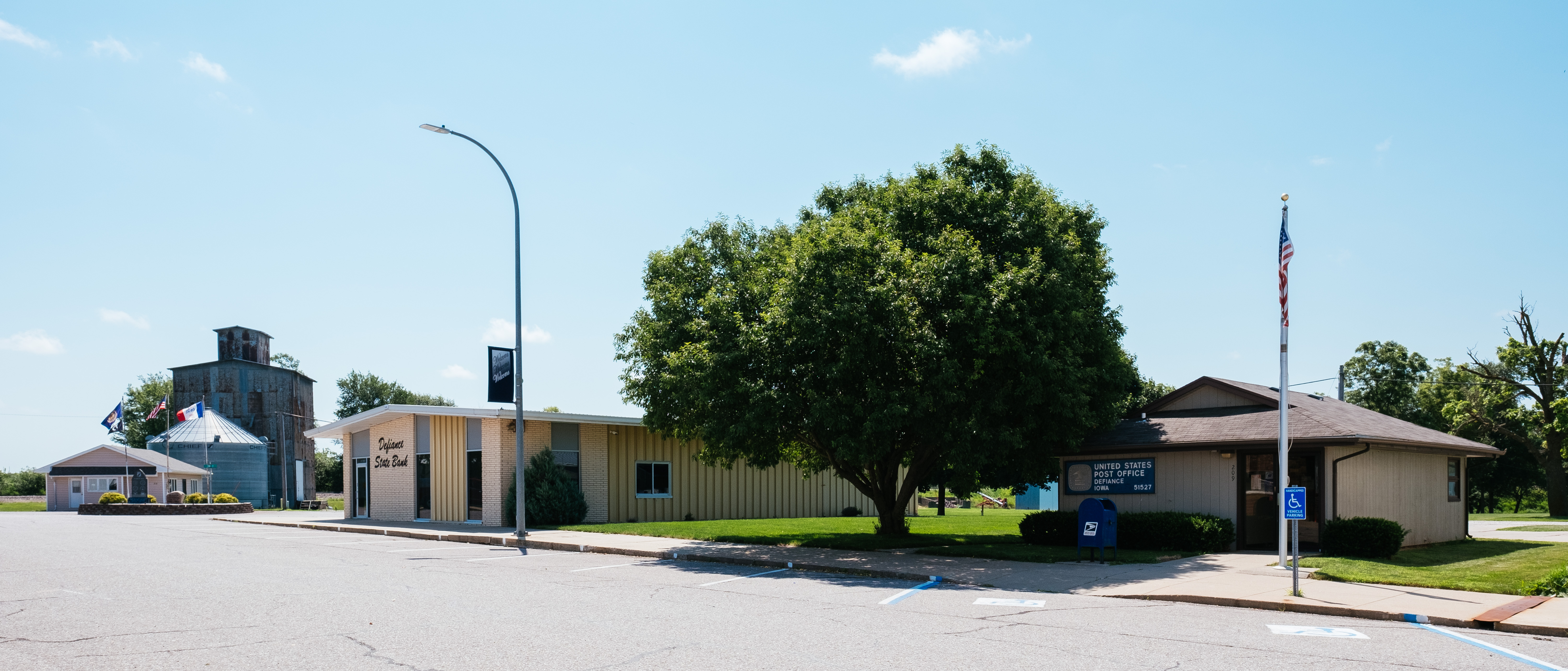 Main Avenue